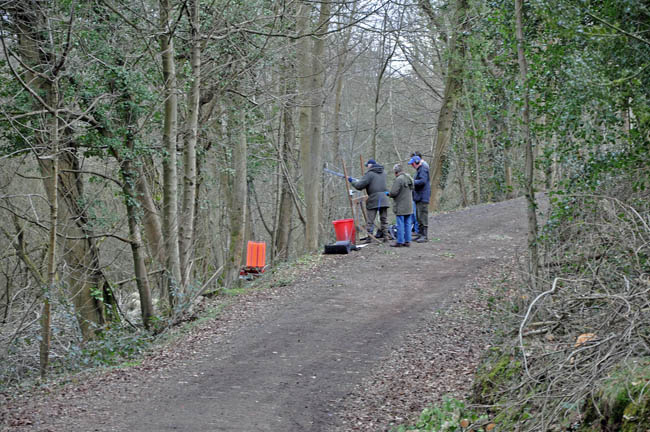 Shooters at Treetops Sporting Ground, Coedkernew, Newport.